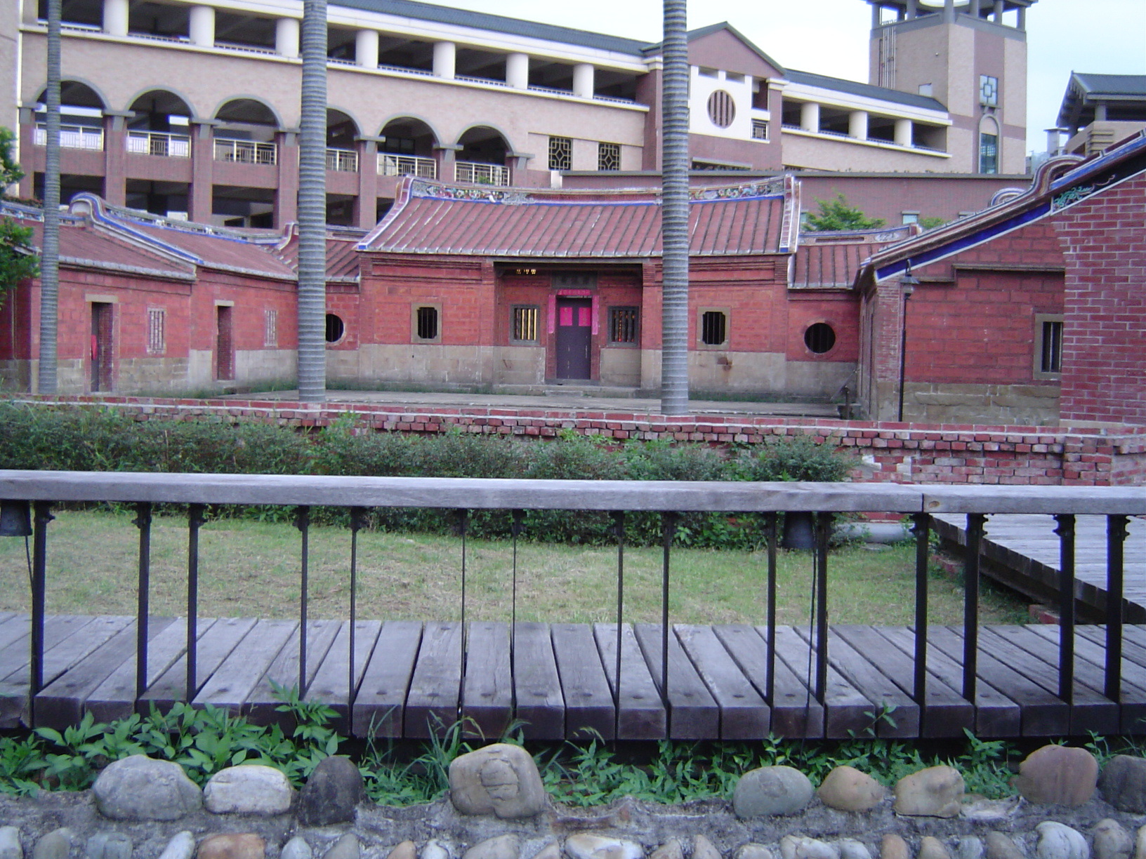 Principal part of the heritage, Huang Family Qianrang Estate, in Daan District, Taipei, Taiwan.Bân-lâm-gú: Tâi-pak-tshī Lîng-an-pho N̂g-the̍h Liâm-jiōng-ki Sann-ha̍p-īnn.臺北市龍安坡黃宅濂讓居三合院。